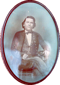 Charles Sweeney of Clover Hill, Virginia